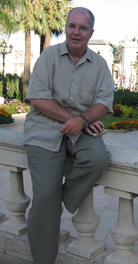 photo of subject in Monaco